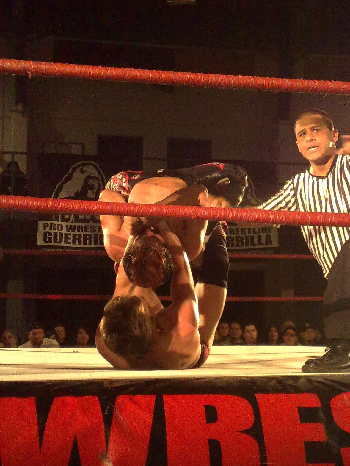 Bryan Danielson with a surfboard on TJ Perkins at Pro Wrestling Guerrilla's Battle Of Los Angeles 2008 Night 2 show on November 2, 2008.